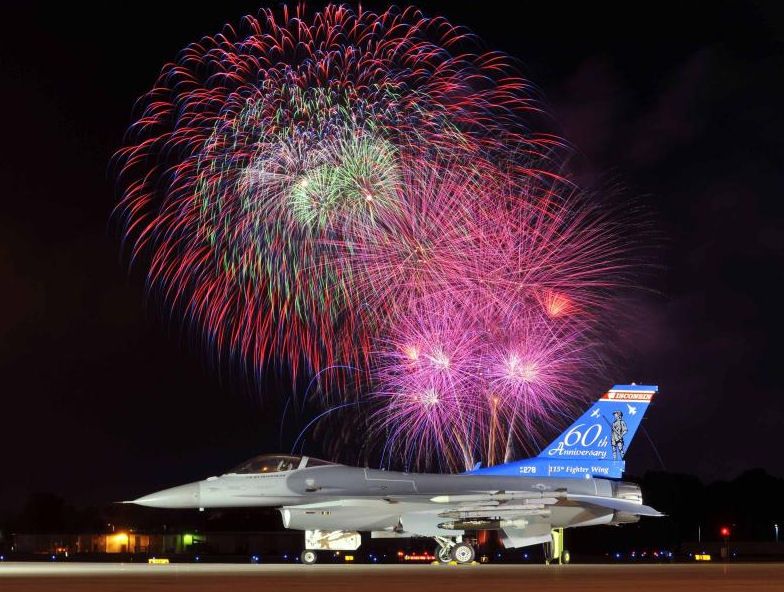 USAF F-16C block 30 #87-0278 from the 176th FS sits on the runway in Madison on June 28th, 2008 during the Rhythm and Booms Fireworks display. Note the 60th Anniversary paint scheme on the tail. [USAF photo by Joe Oliva]